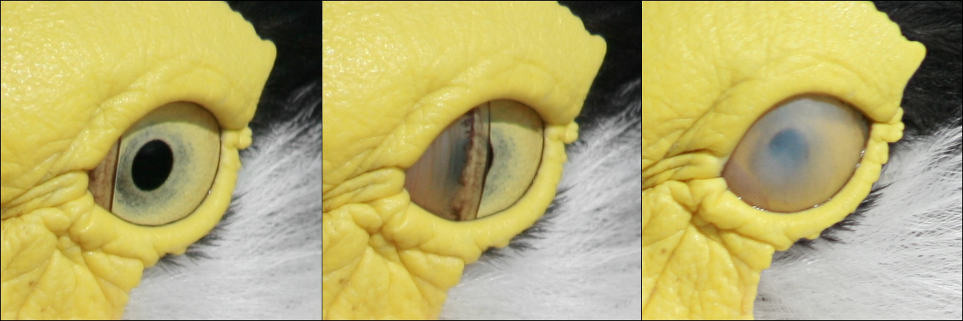 The blinking eye of a Masked Lapwing in Cairns, Queensland, Australia. The nictitating membrane closes from only one side, and is translucent. The eyelids themselves do not close during blinking, but do so for sleep.